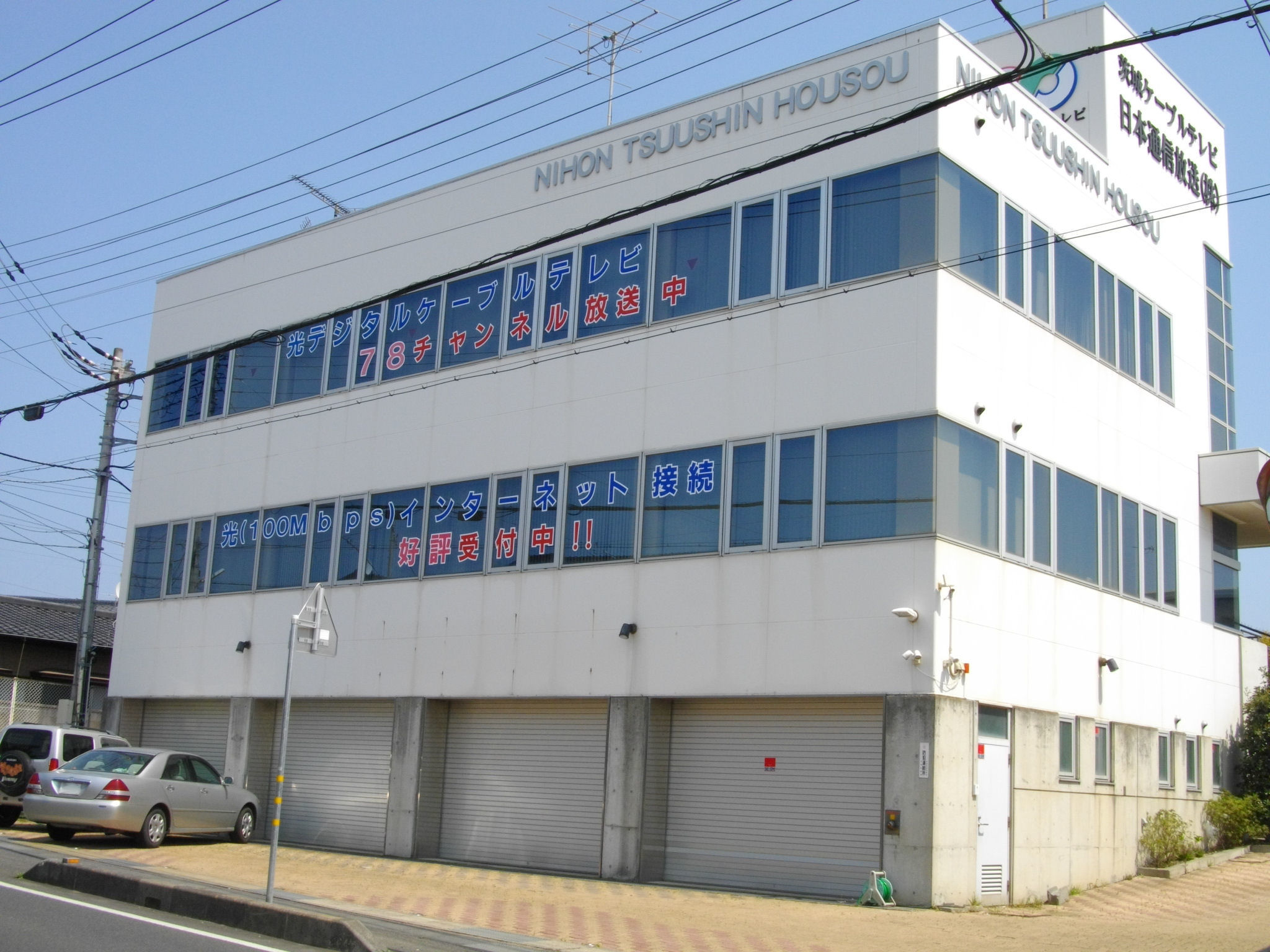 Japan Broadband Communications Corp Head Office